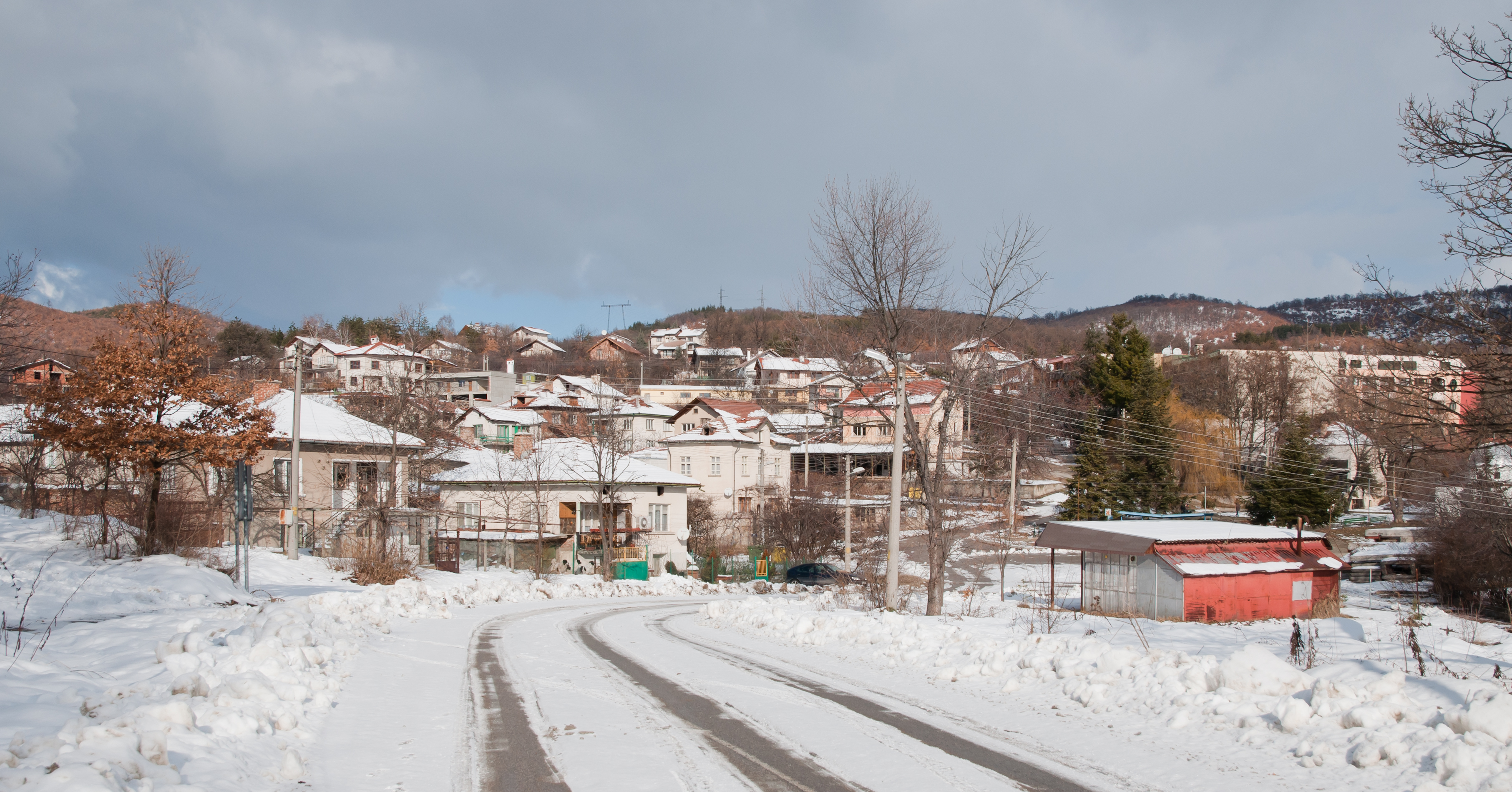 View of the small spa resort Pchelinski Bani, Kostenets Municipality, Bulgaria.